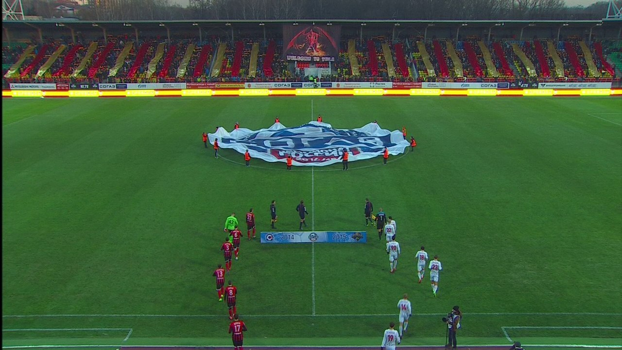 Красочный перфоманс Арсенала